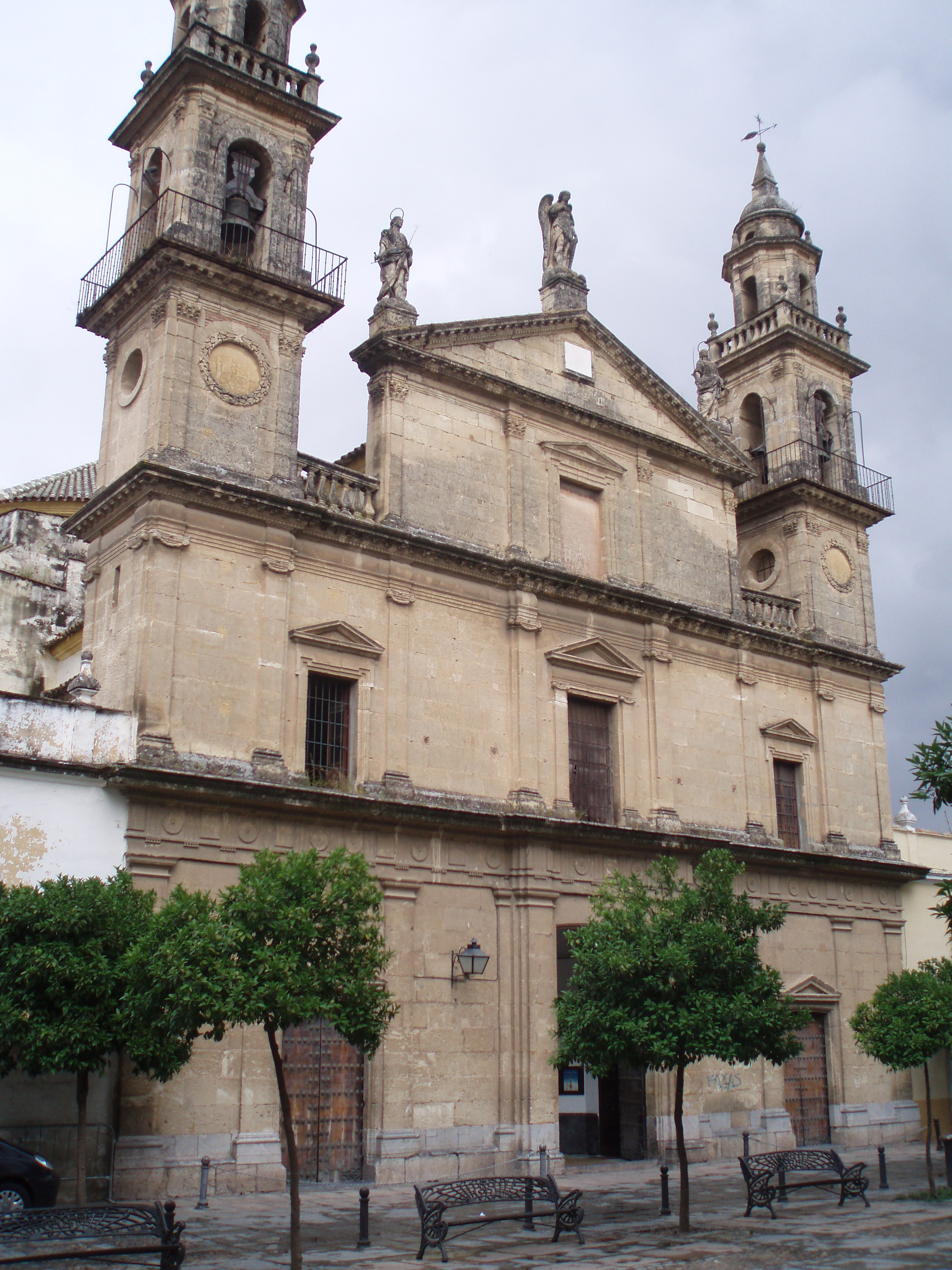 Church of the Promise of Saint Raphael, in the city of Córdoba. (Spain).